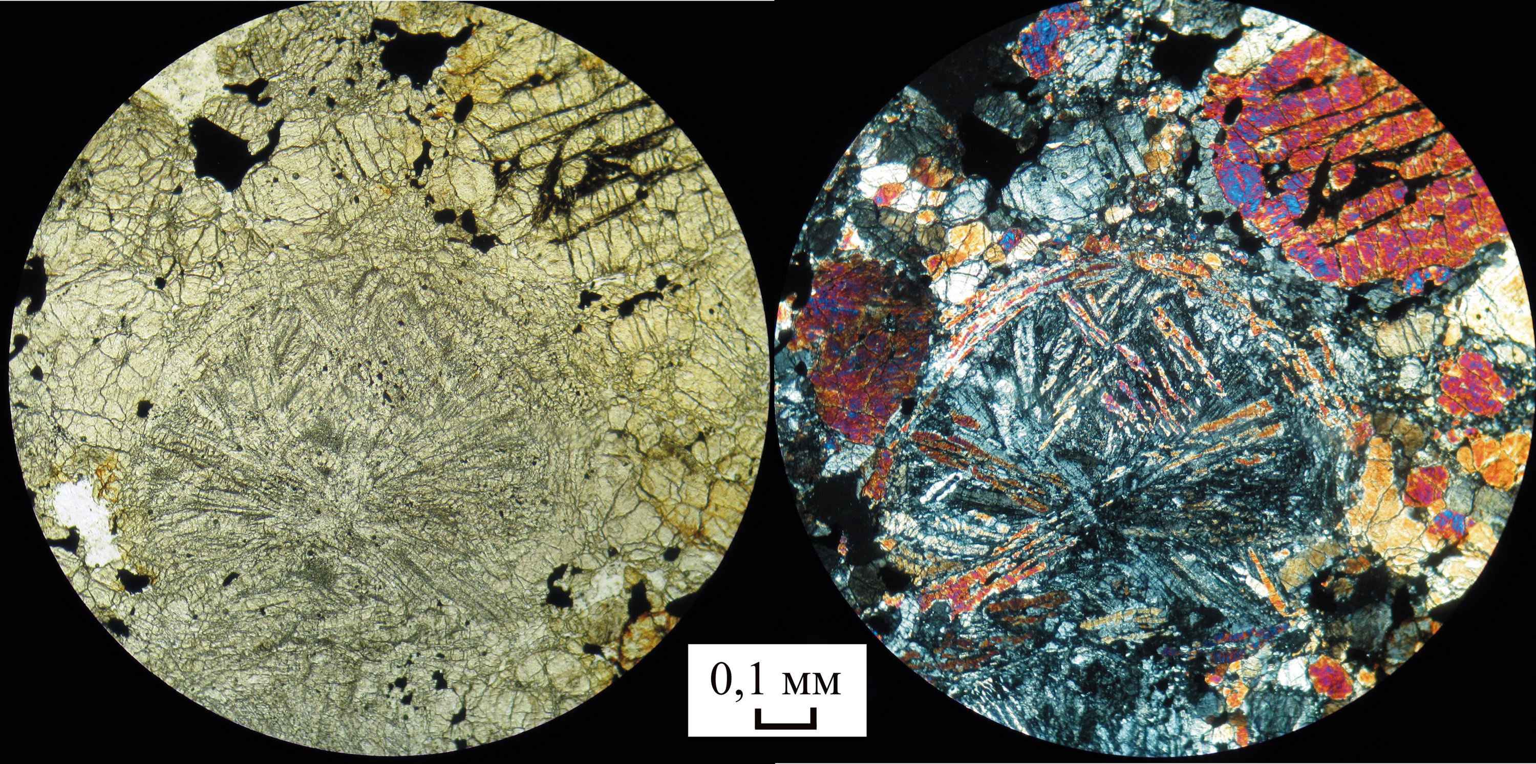 Here is the Chelyabinsk meteorite under a microscope. This stony meteorite - chondrite. You can see rounded chondrules containing forsterite and pyroxene. Age of this meteorite - about 4.5 billion years. Microscope Axioskop-40, left picture is plane-polarized light, the right - cross-polarized light.